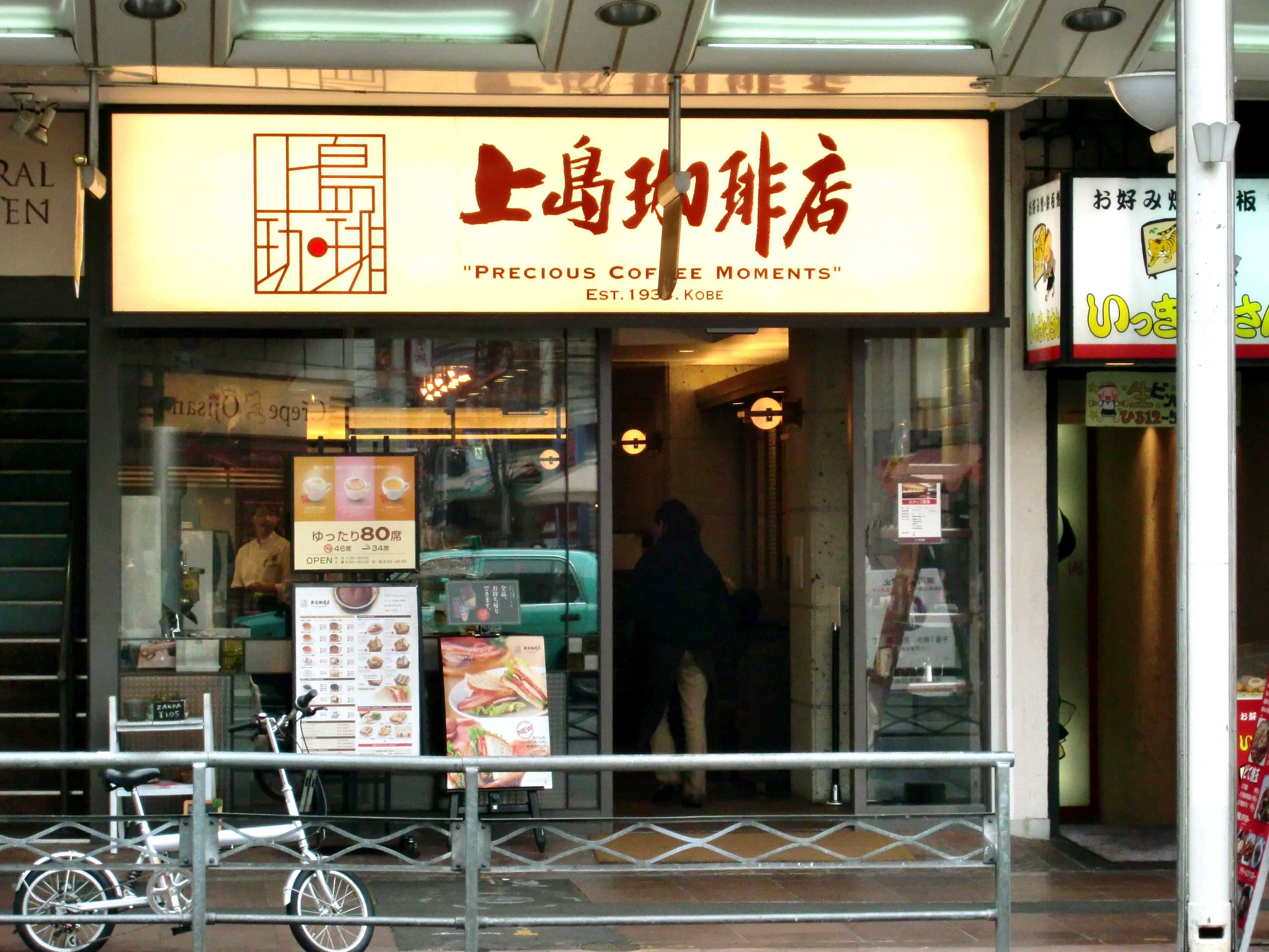 Ueshima-coffee-ten Kyoto Kawaramachi branch,Kawaramachidori-Takoyakushi Nakagyo-ku Kyoto-City JAPAN.